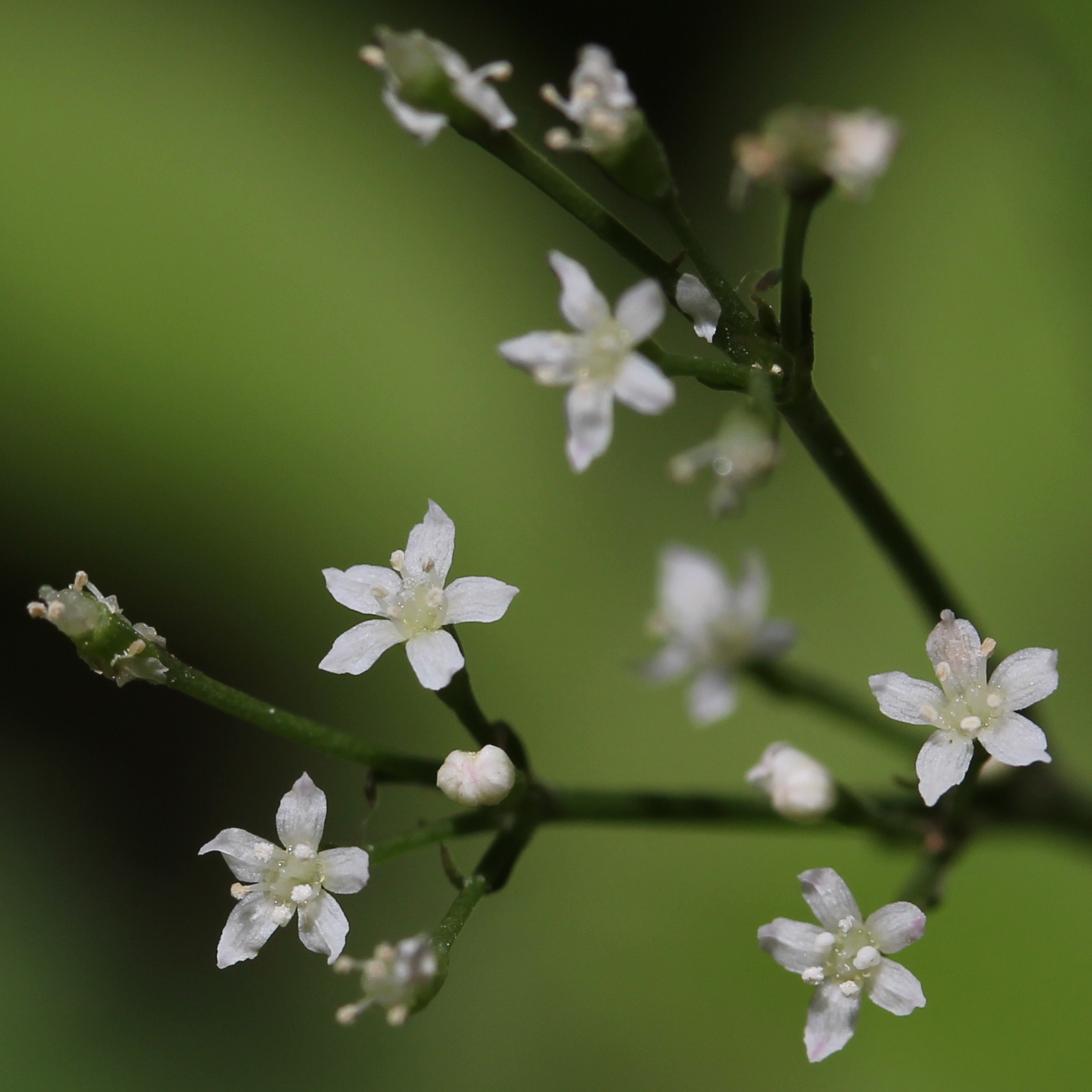 Flowers of Cryptotaenia canadensis subsp. japonica, in Mount Ibuki, Maibara, Shiga prefecture, Japan.